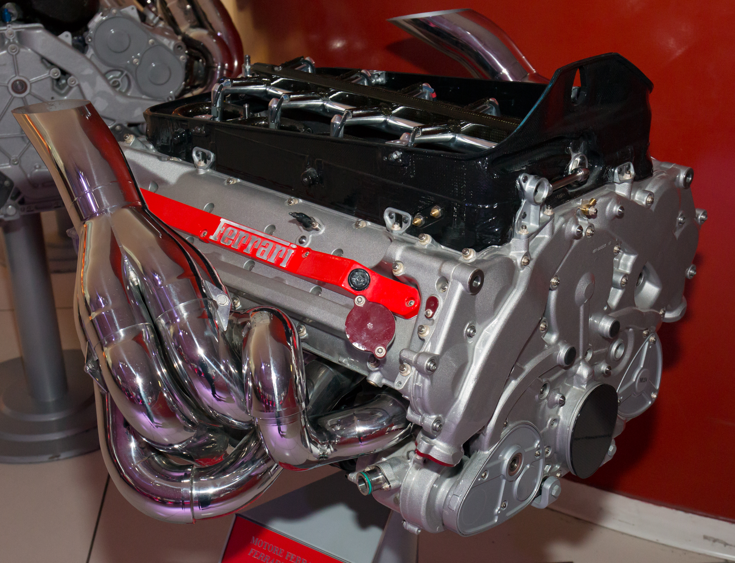 Ferrari Tipo 051 engine (2002) of the Ferrari F2002